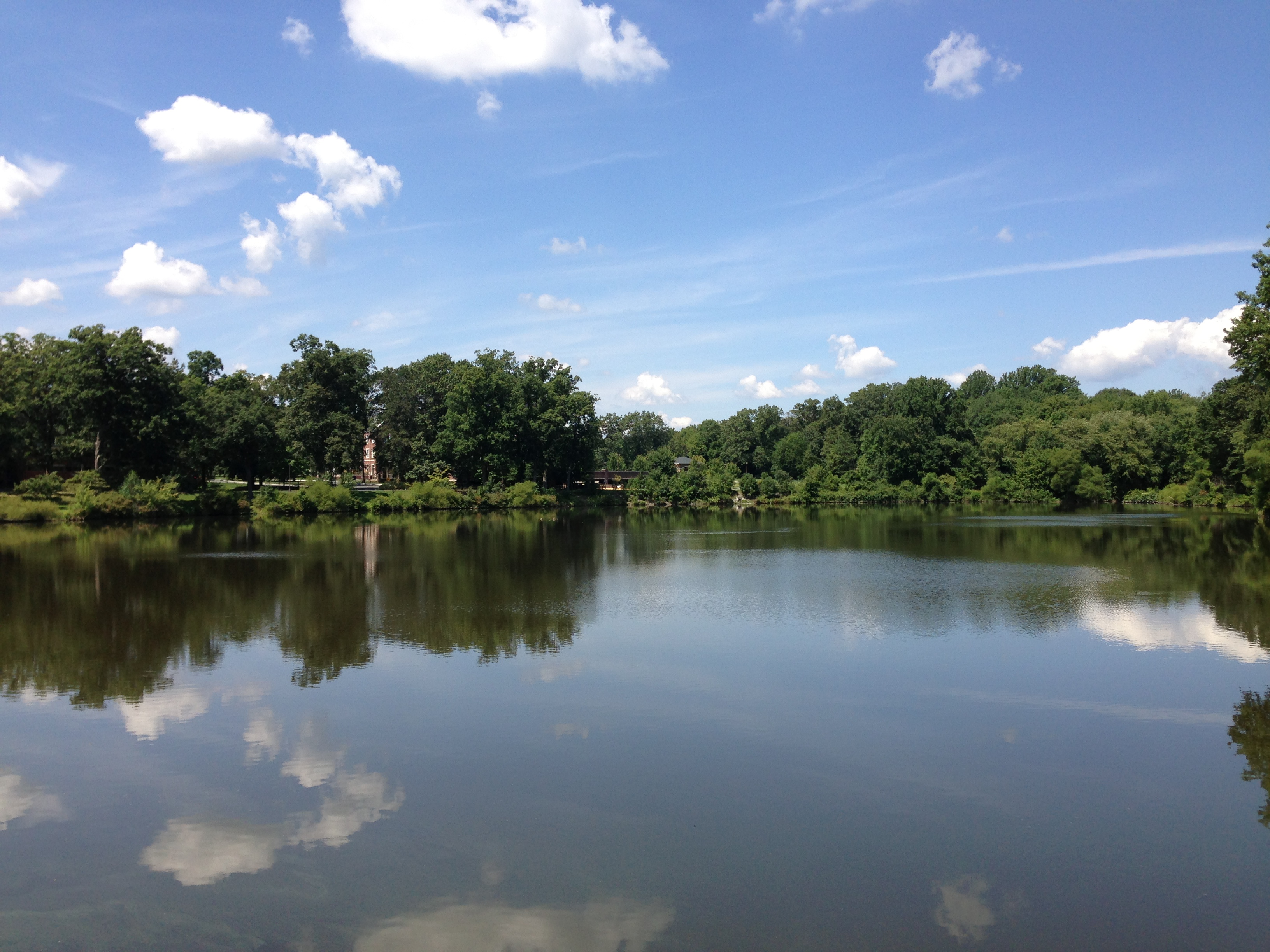 View northwest across Lake Sylva from the east side of the Lake Sylva Dam on August 17th 2013